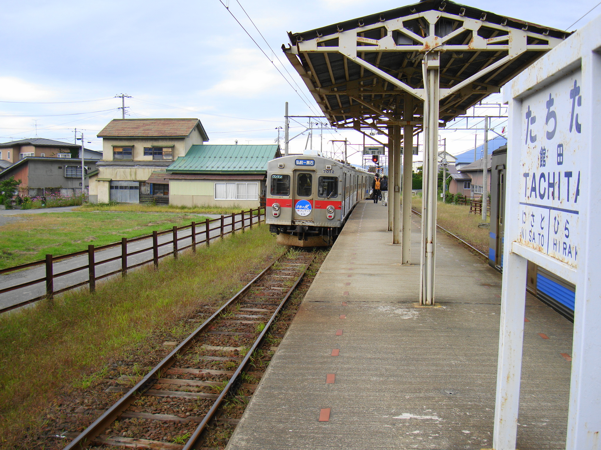 Tachita Station